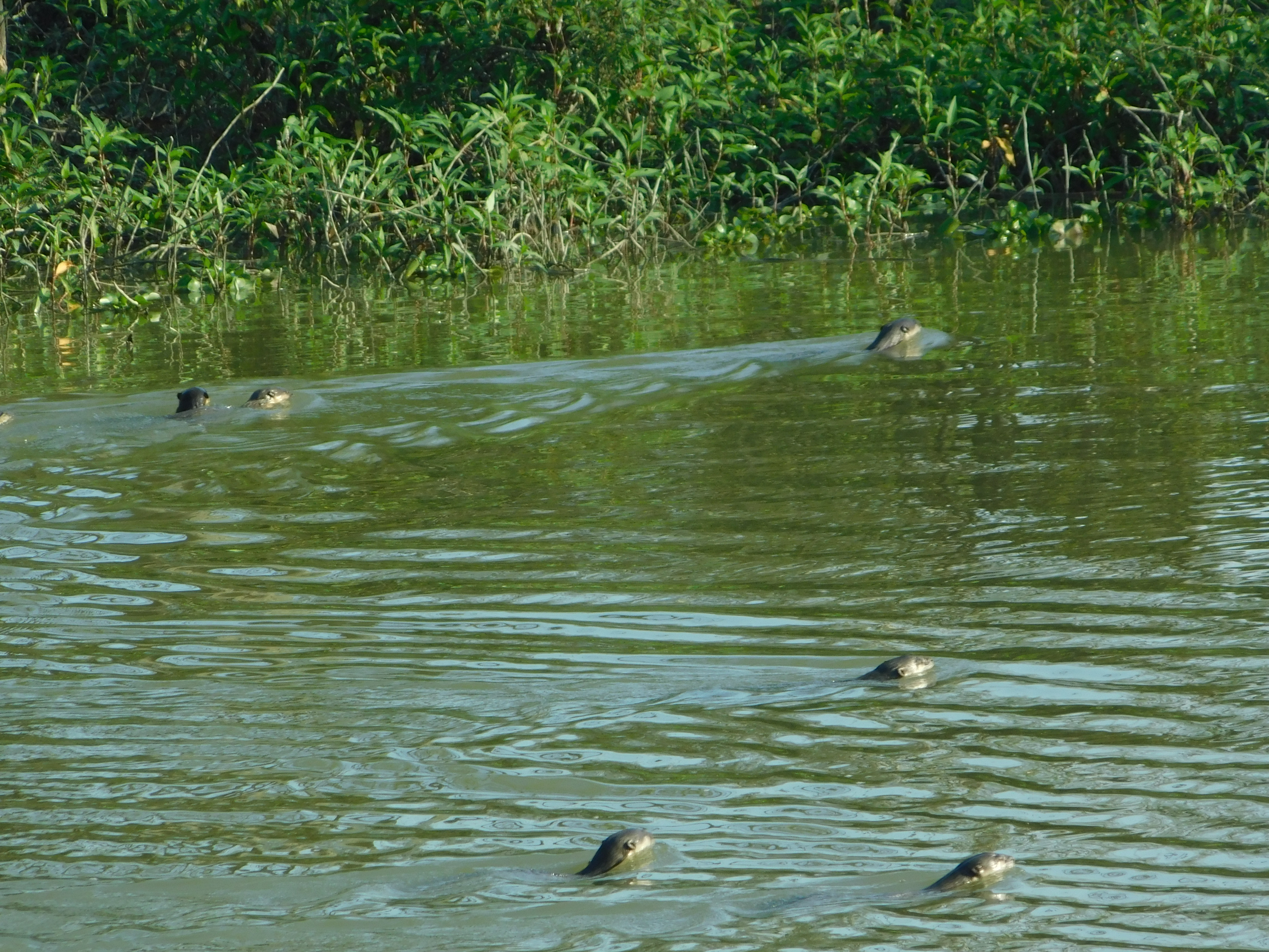 Otter can be widely seen in Kaziranga National Park